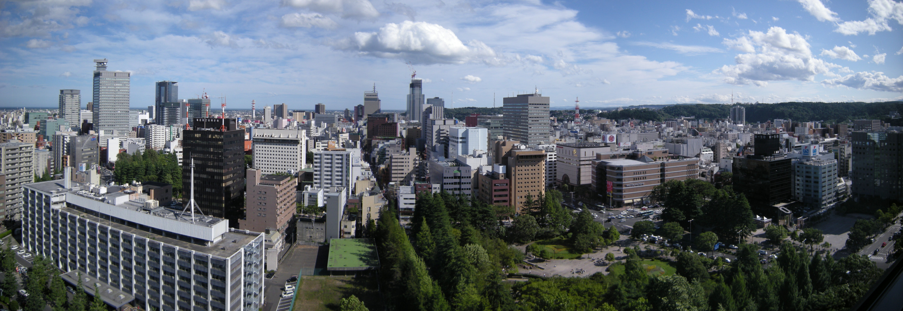 South panoramic view from the 18th floor of Miyagi prefectual office building, in Sendai city, Miyagi, Japan.